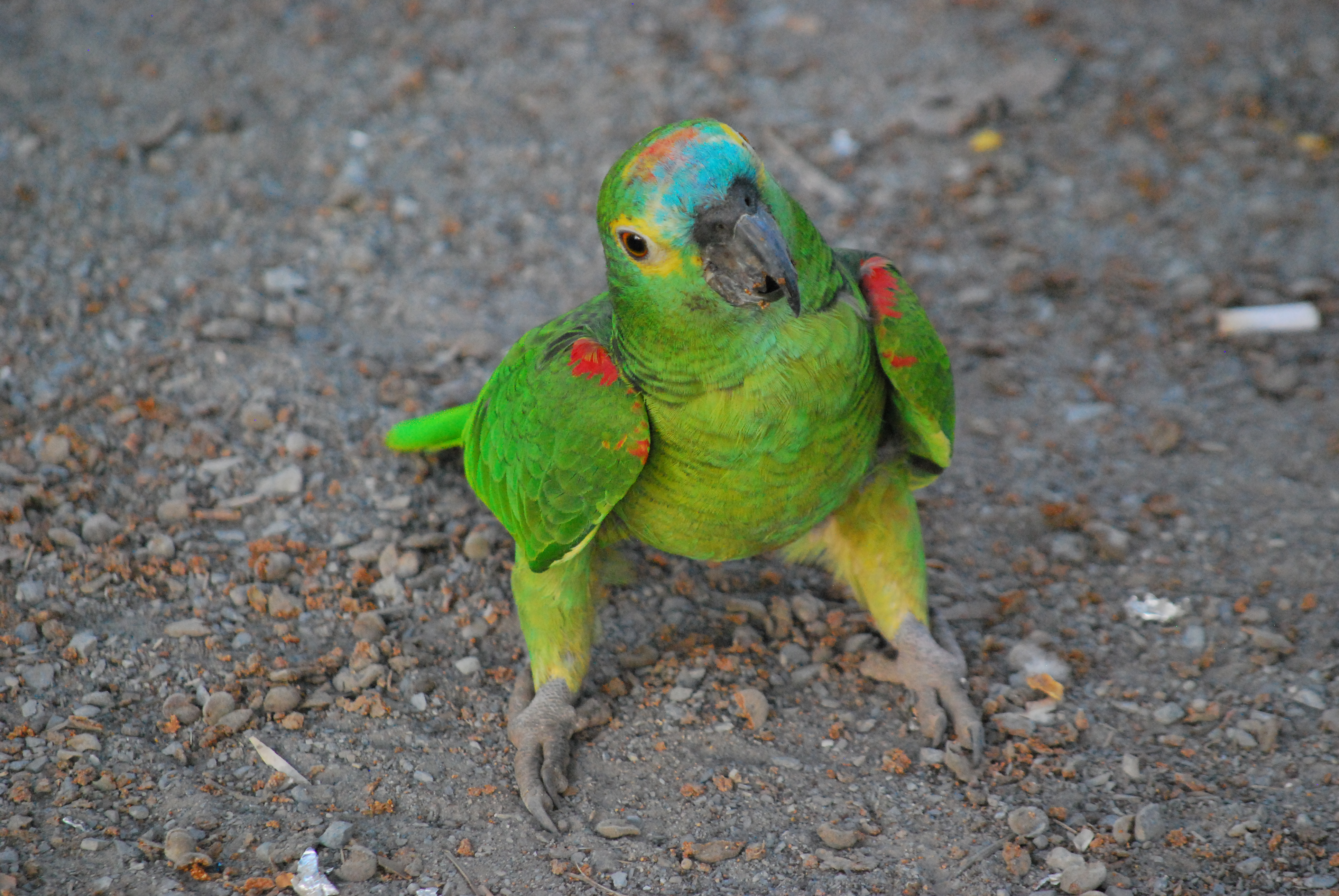 A Blue-fronted Amazon Amazona aestiva in Mato Grosso, Brazil.